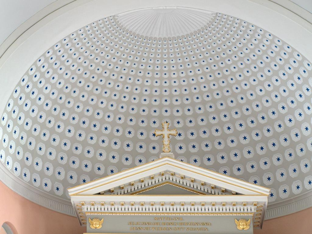 Krempe (Schleswig-Holstein, Germany),Church, starry sky , photo 2009